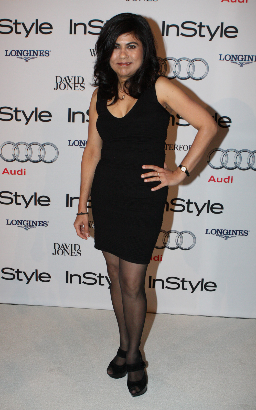 Veena Sahajwalla was the first award winner for the evening, taking home the Environment Award [1].(In Style And Audi 5th Woman Of Style Awards)